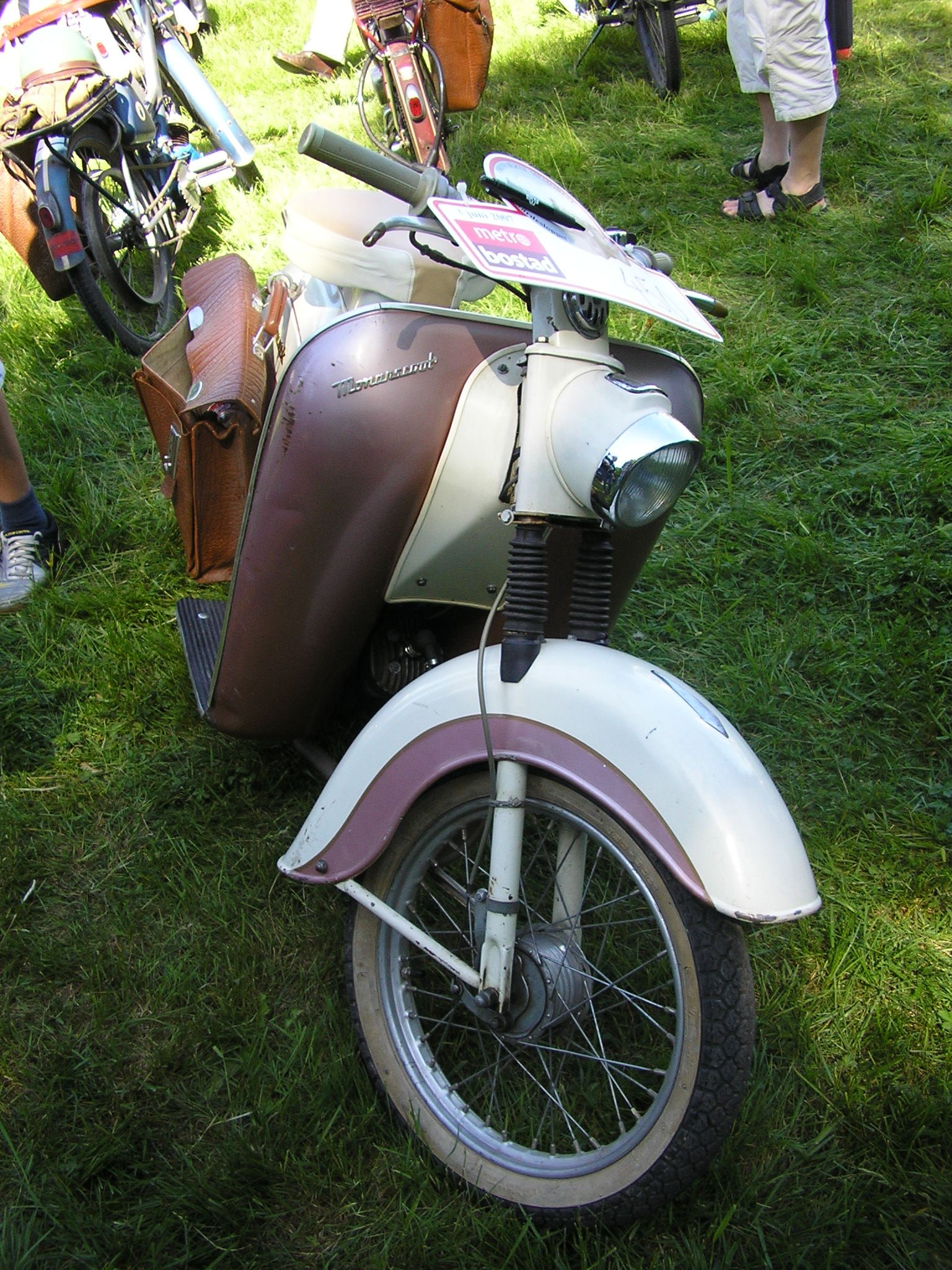 Monark Monarscoot.